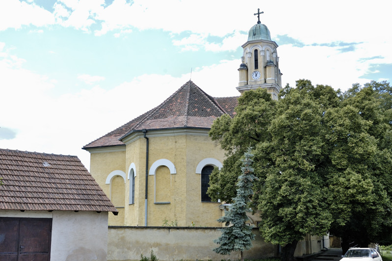 Church in Brodské